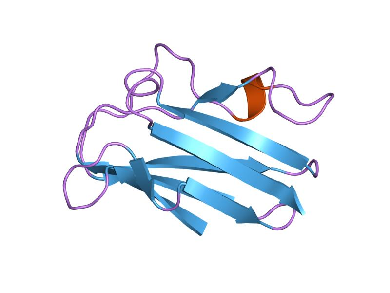 Cartoon representation of the molecular structure of protein registered with 1plc code.